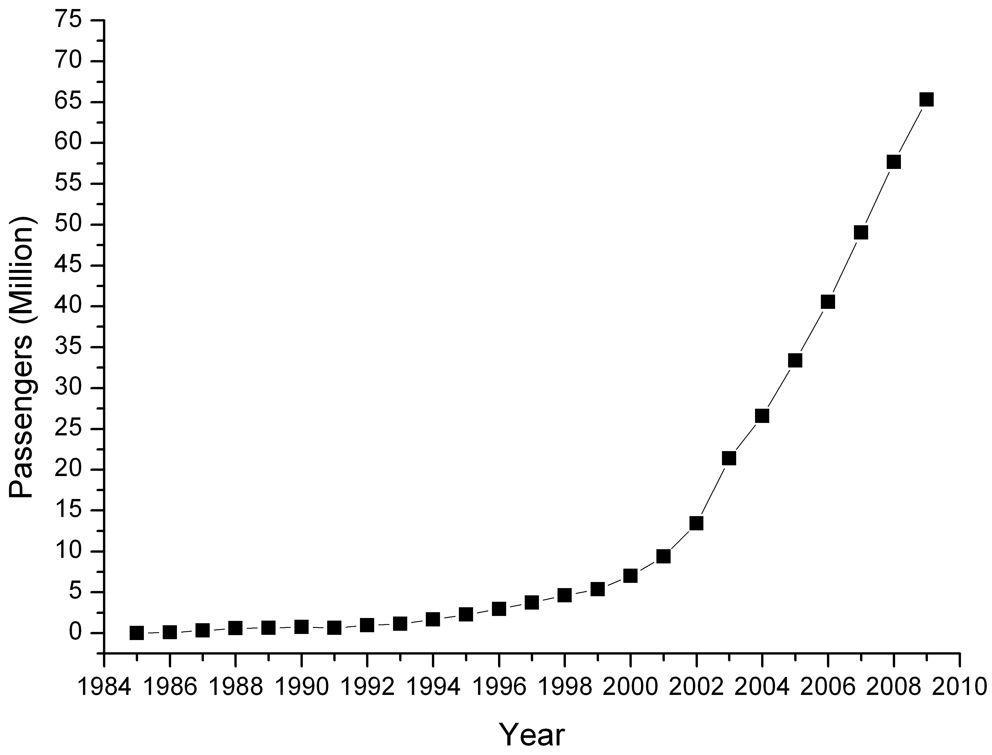 Increase of passengers of Ryanair since founding Entwicklung der Passagierzahl von Ryanair seit der Gründung